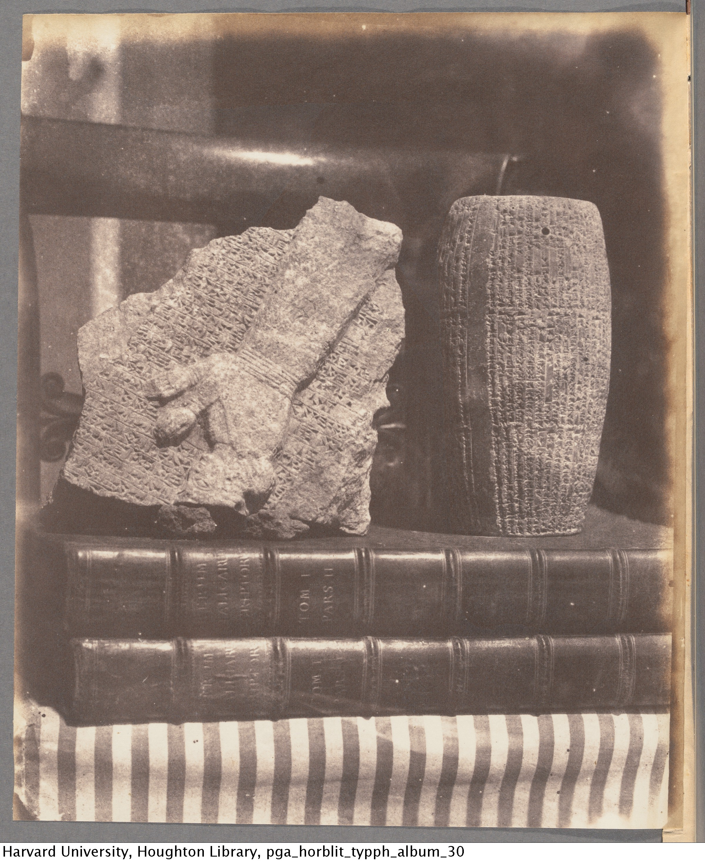 by Amelia Elizabeth Guppy, salted paper print, 1853, Houghton Library, Harvard